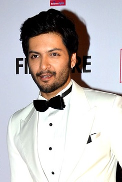 Ali Fazal at Filmfare Awards 2014